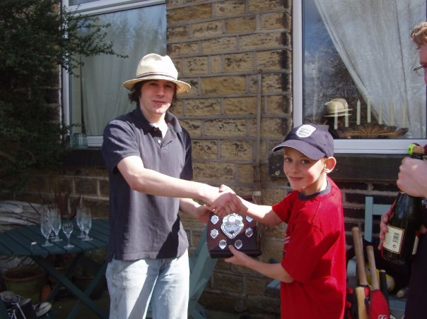 Jack and Luke Astill shake hands whilst holding the William Ewart Astill Cricket Shield commemorating a single test day of cricker in memory of William.